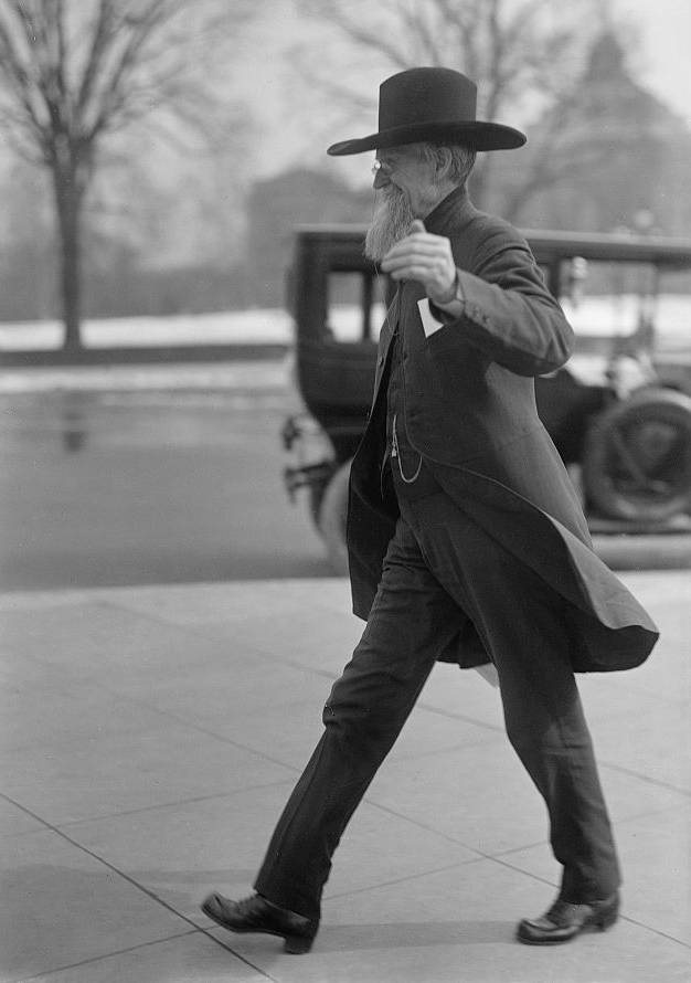 Davis, James Harvey 'Cyclone Davis.' Rep. from Texas, 1915-1917. Wearing First Collar